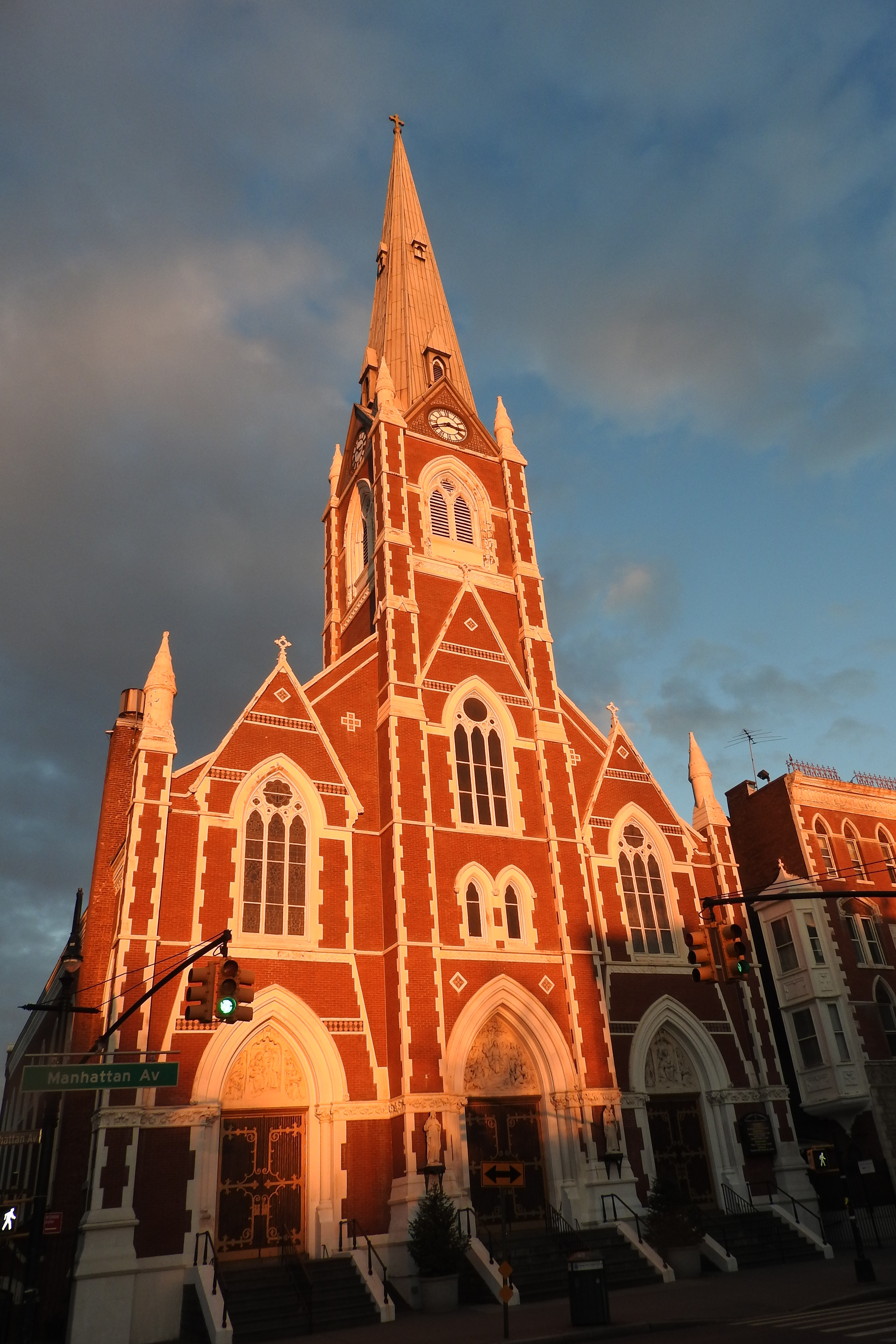 Looking east at St Anthony's with a low sun